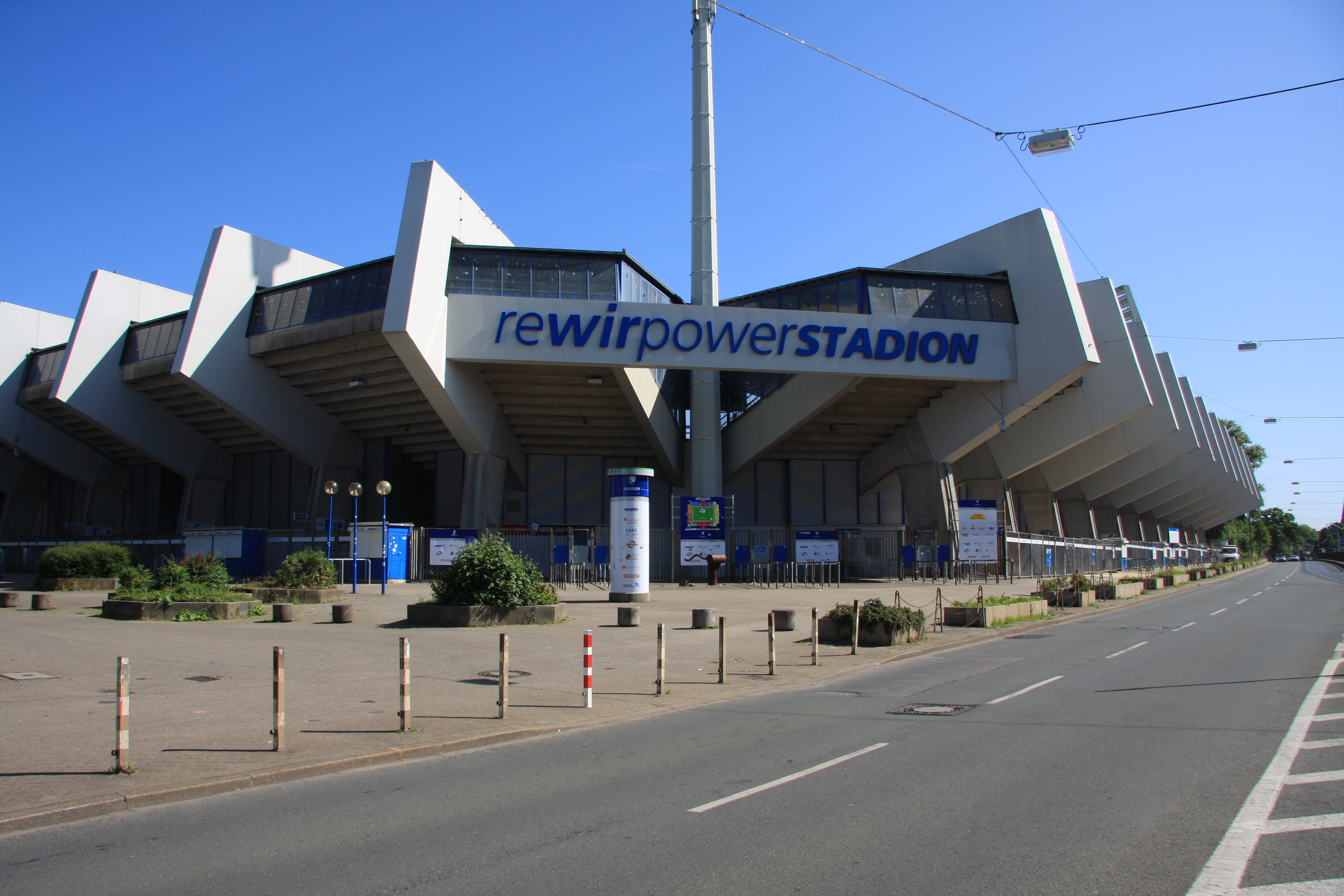 Rewirpowerstadion of VfL Bochum